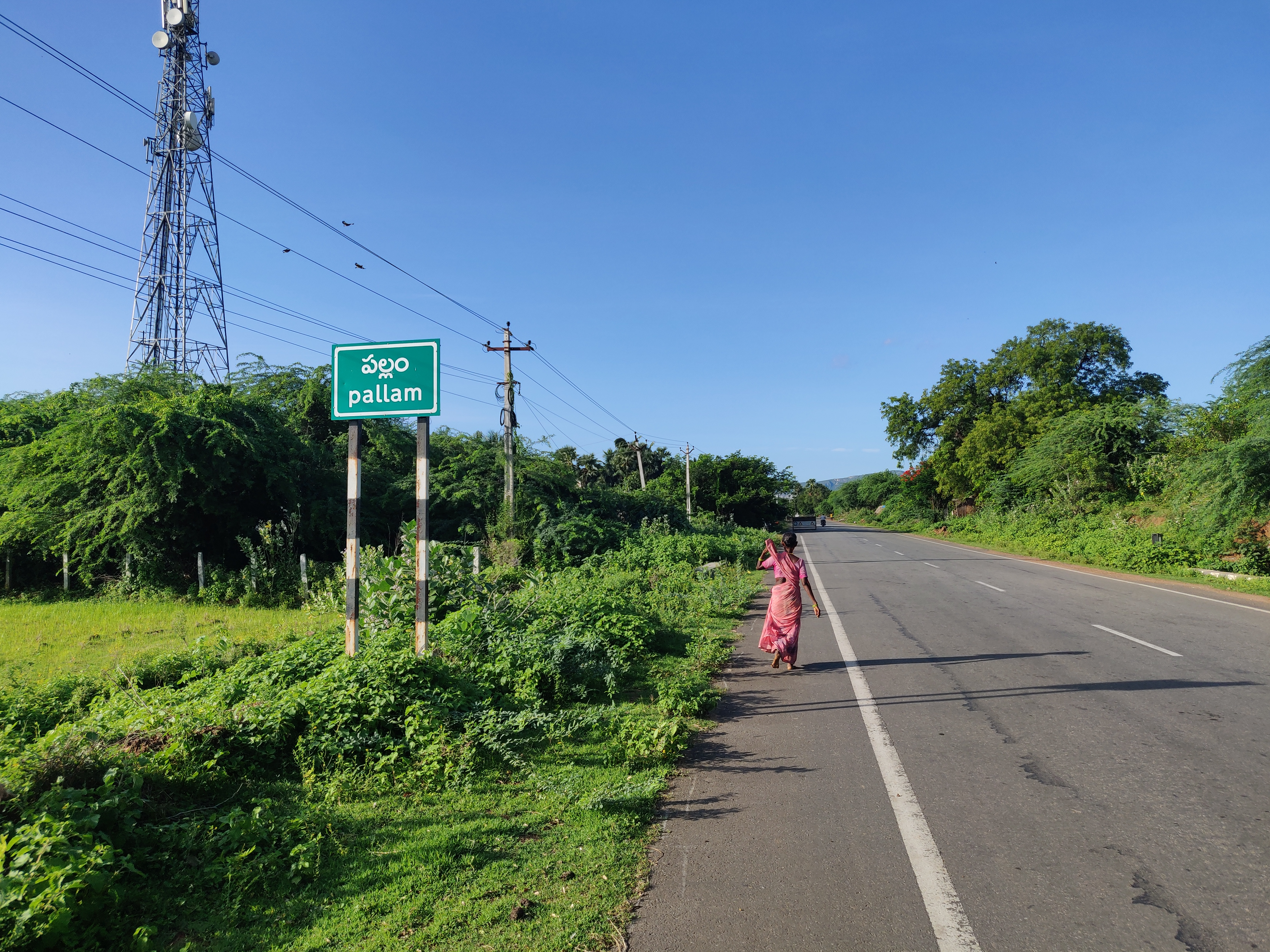 Pallam Village, Yerpedu Mandal, Chittoor district of Andhra Pradesh, India. Name board seen from north side, Venkatagiri to Yerpedu road